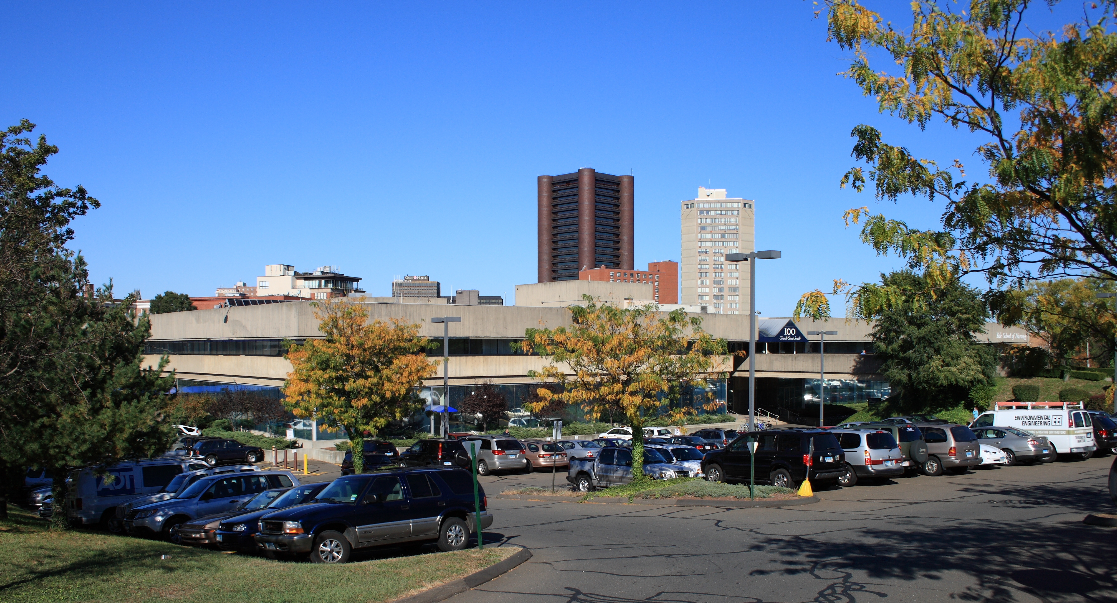 The main building of the Yale University School of Nursing at 100 Church Street South in New Haven, Connecticut. - Google Maps - Google Earth